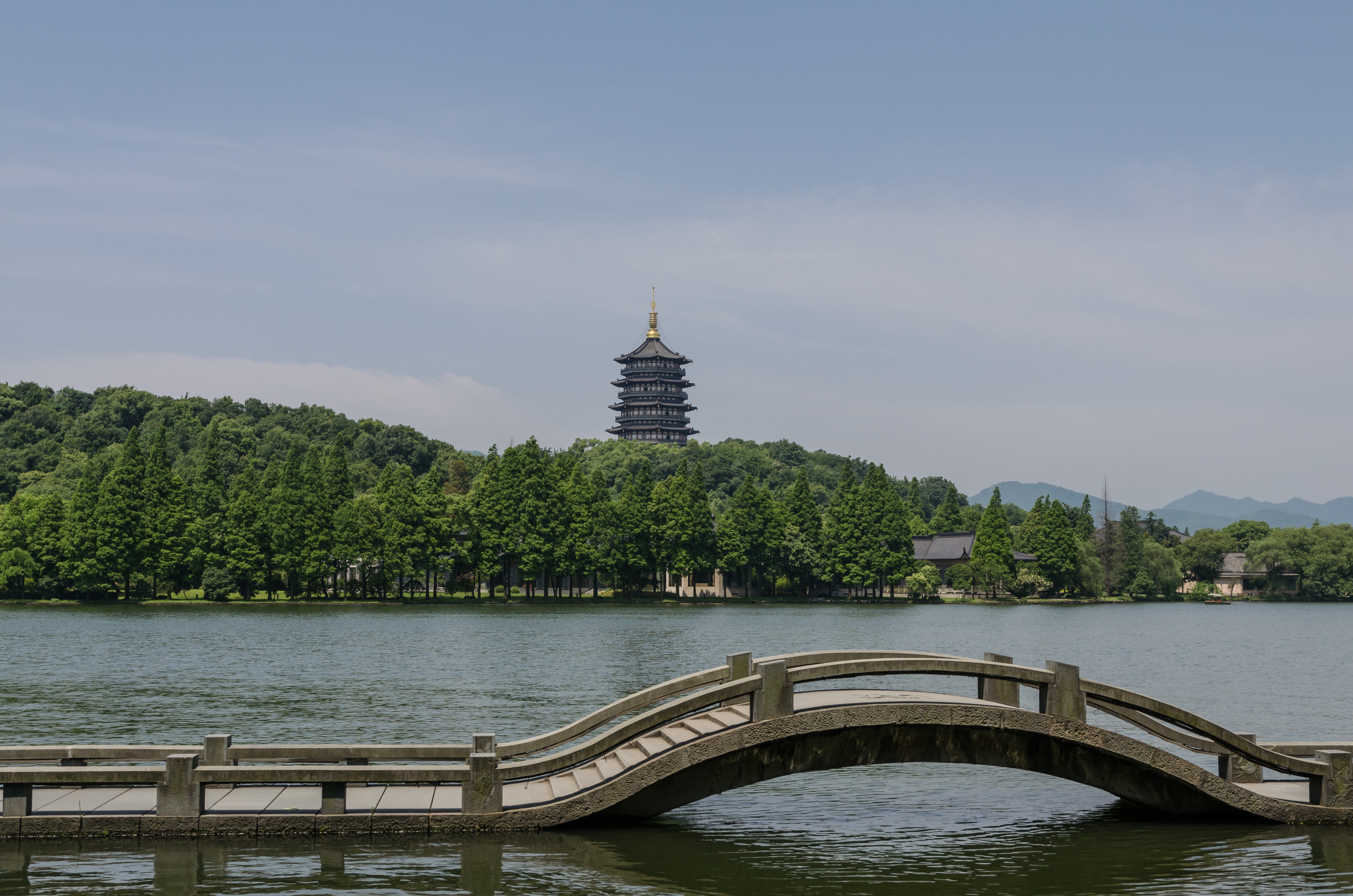 The West Lake near Hangzhou as seen from the shore. A footbridge is visible in the foreground, while the Leifeng Pagoda can be seen in the background.